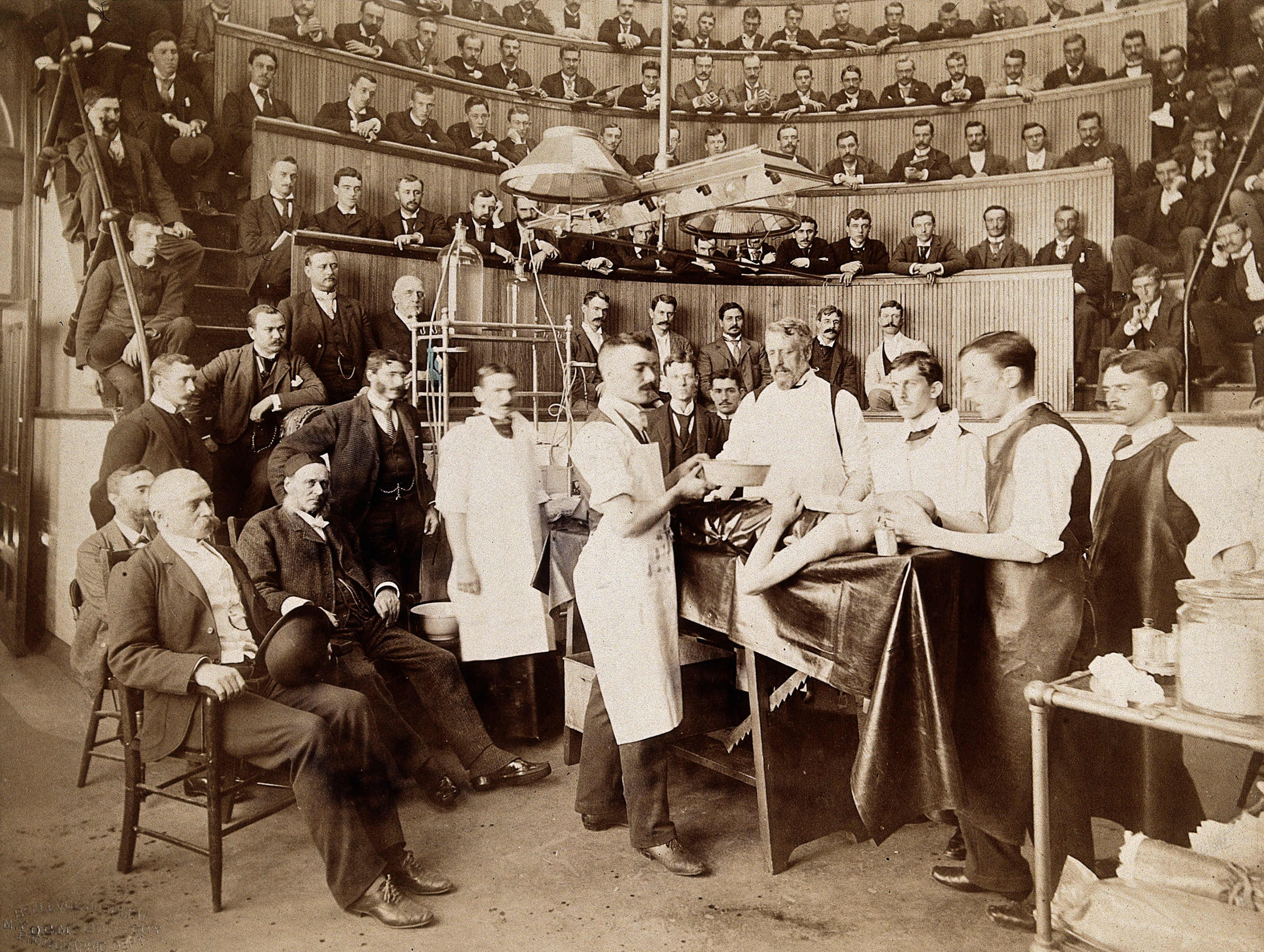 Sir William MacCormac about to perform a surgical operation at the Bellevue Hospital, New York. Albumen print, 1891. Iconographic Collections Keywords: Sir William MacCormac; sir william maccormac; Lewis Albert Sayre